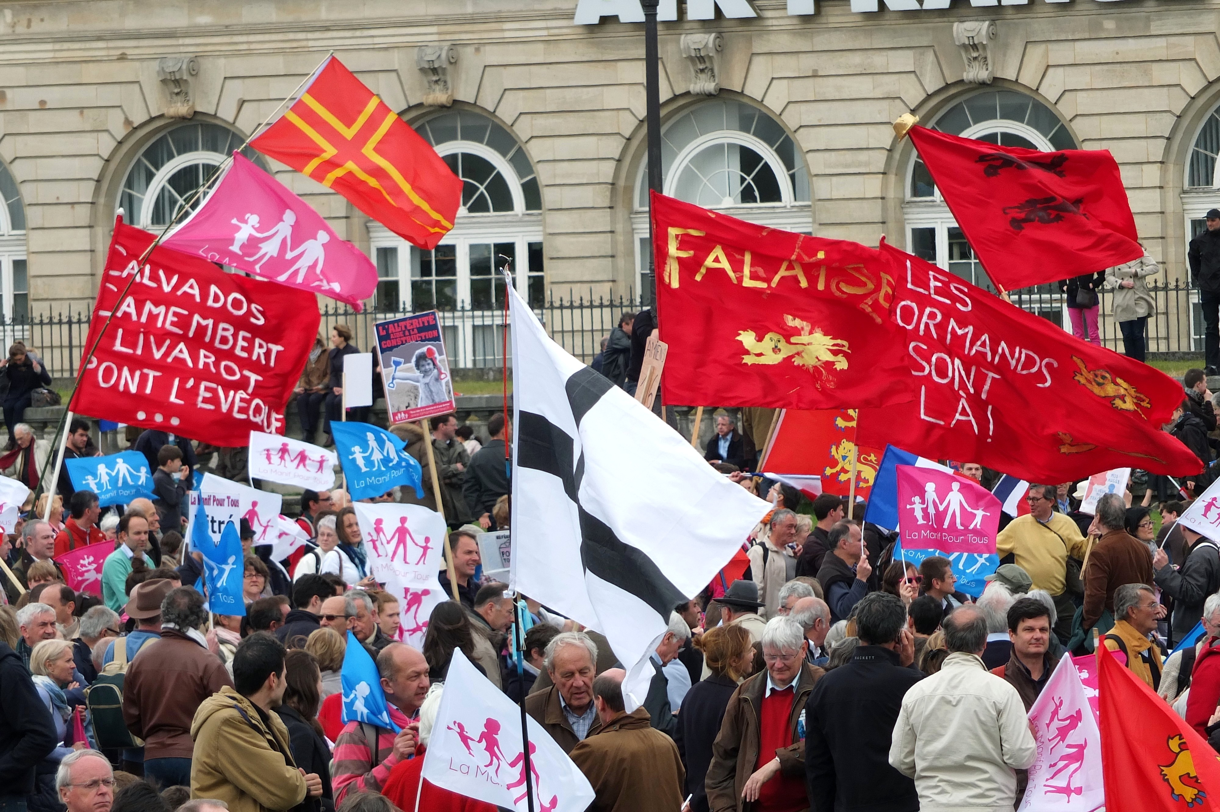 French protestation against Gay marriage and adoption on May 2013